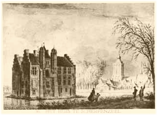 Castle Scherpenzeel